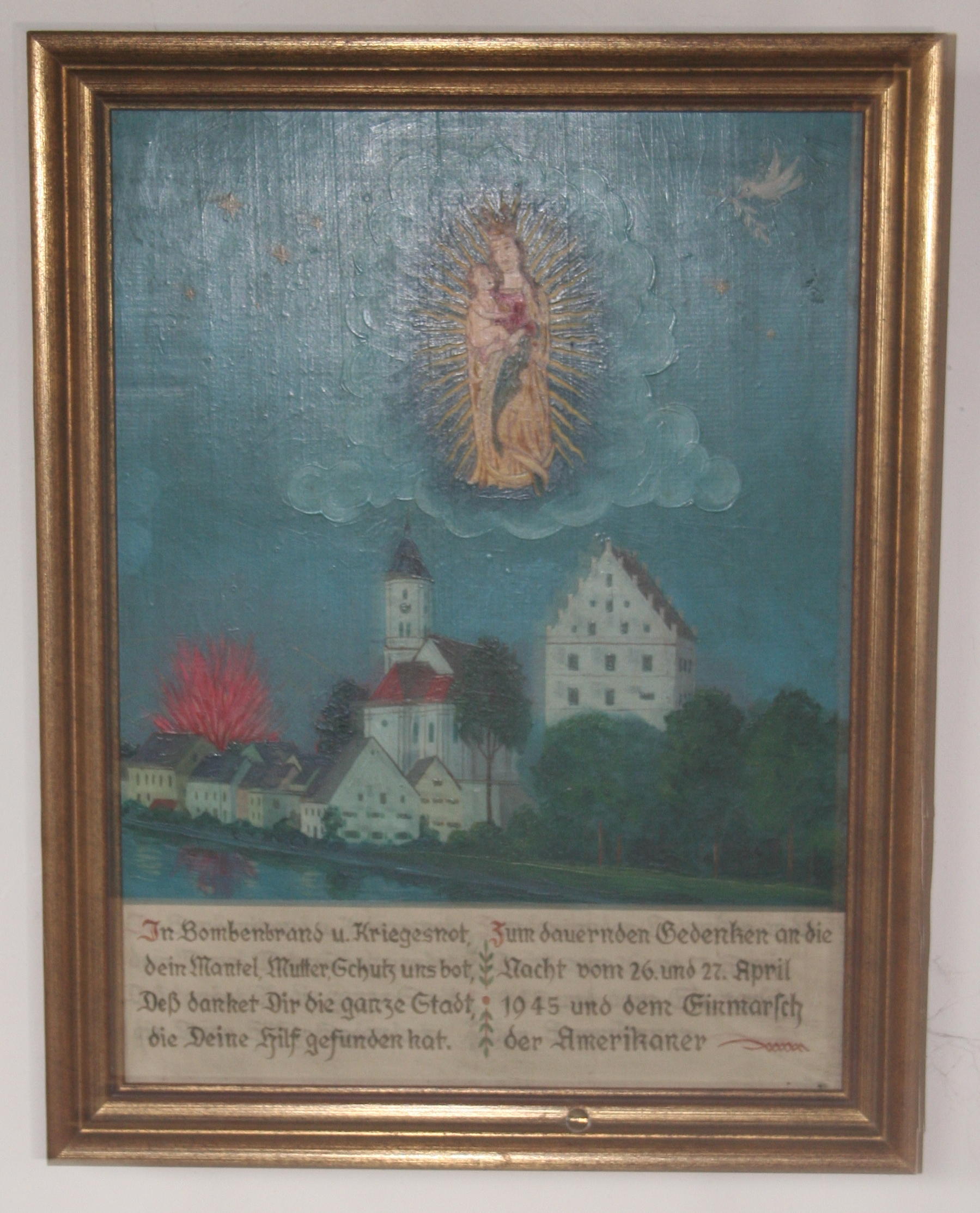 in the Mills-chapel